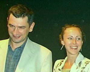 Viorel Bologan with wife, Chess Days 2003 at Dortmund